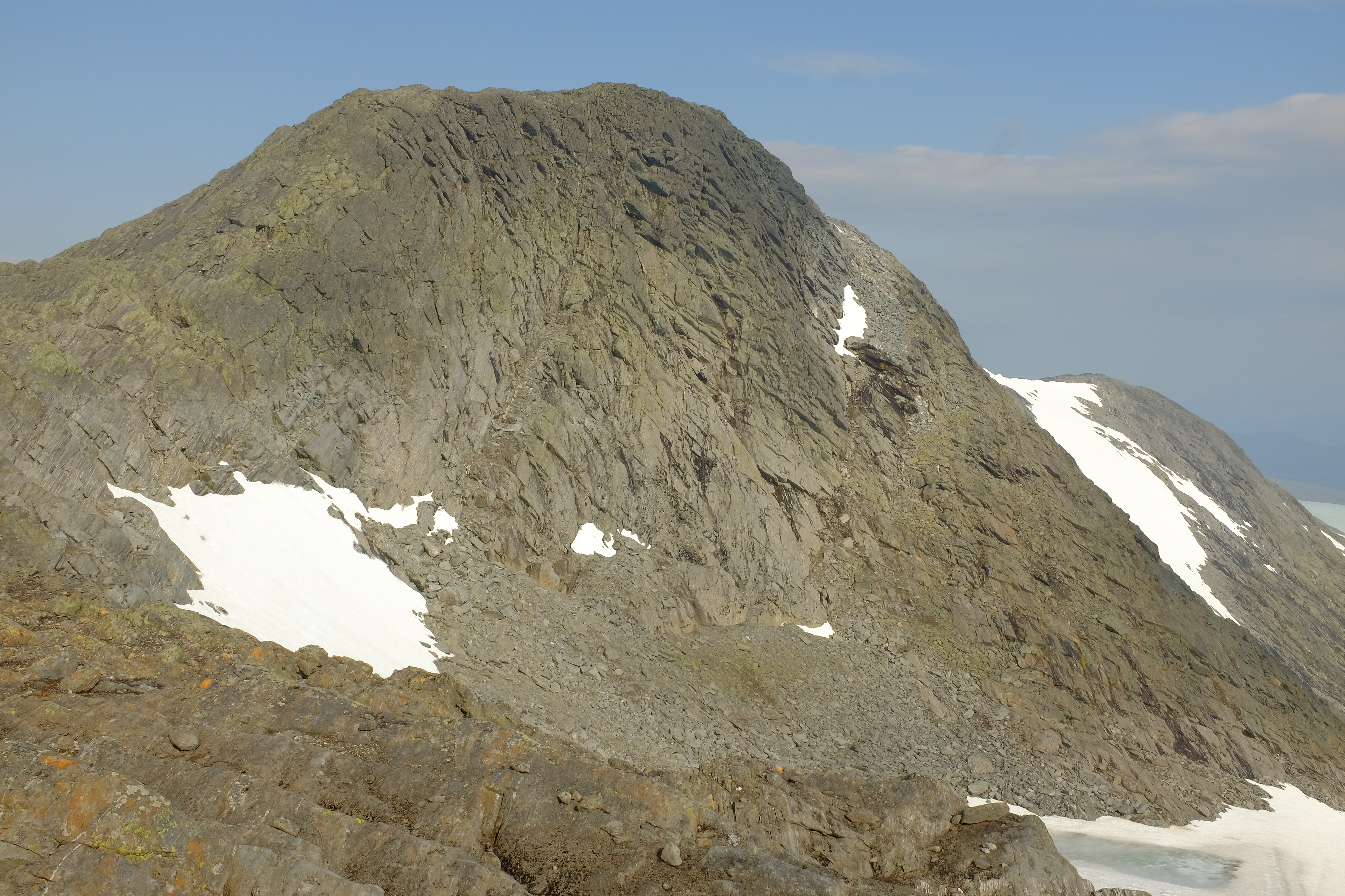 Although this summit has no name on official maps, many call it the Skagmatoppen, derived from the name of the valley just below.